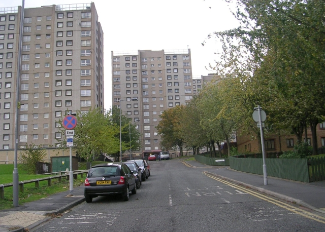 Reyhill Grove - Manchester Road